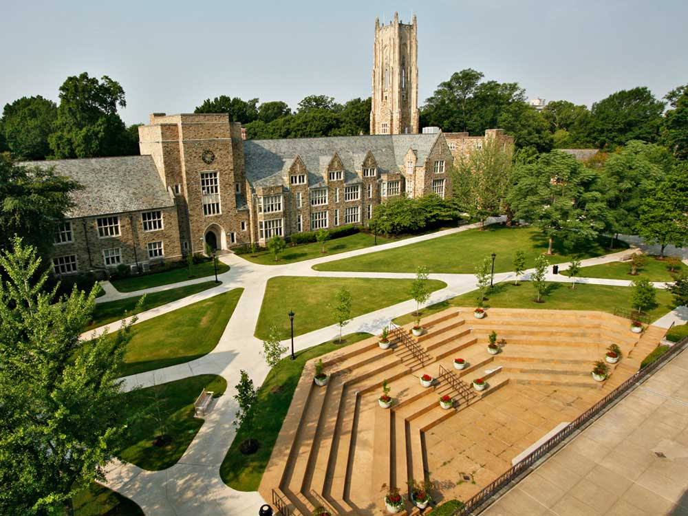 Frazier Jielke Amphitheatre